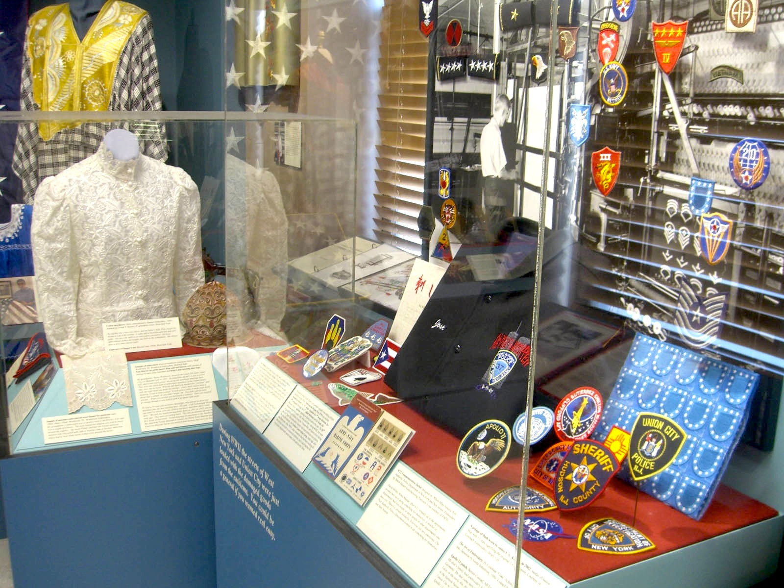 Embroidery and lace exhibit at the Park Performing Arts Center in Union City, New Jersey, once the “Embroidery Capital of the United States". This photo was created by Luigi Novi. It is not in the public domain, and use of this file outside of the licensing terms is a copyright violation.